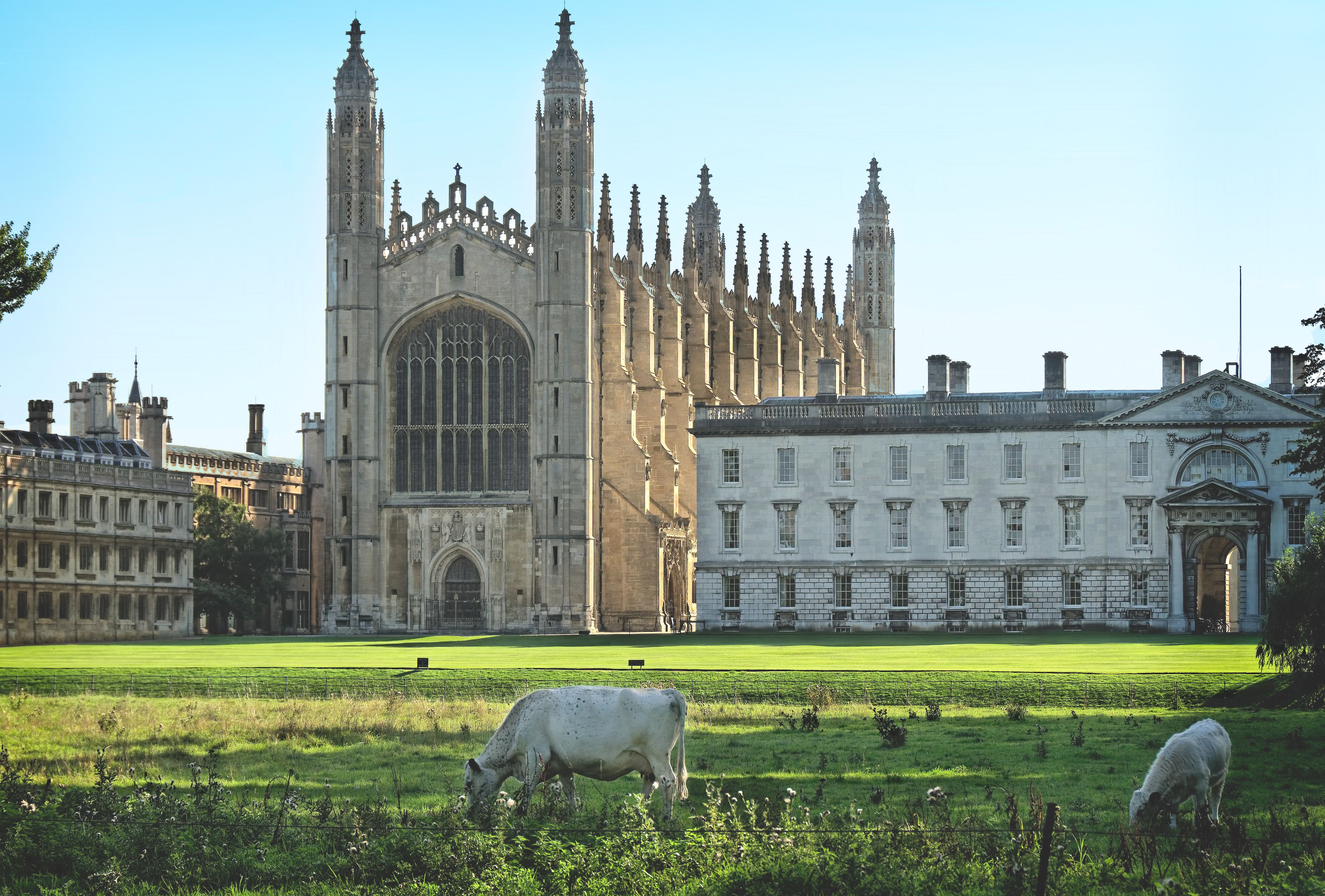 Masterpiece or monstrosity, King's College chapel